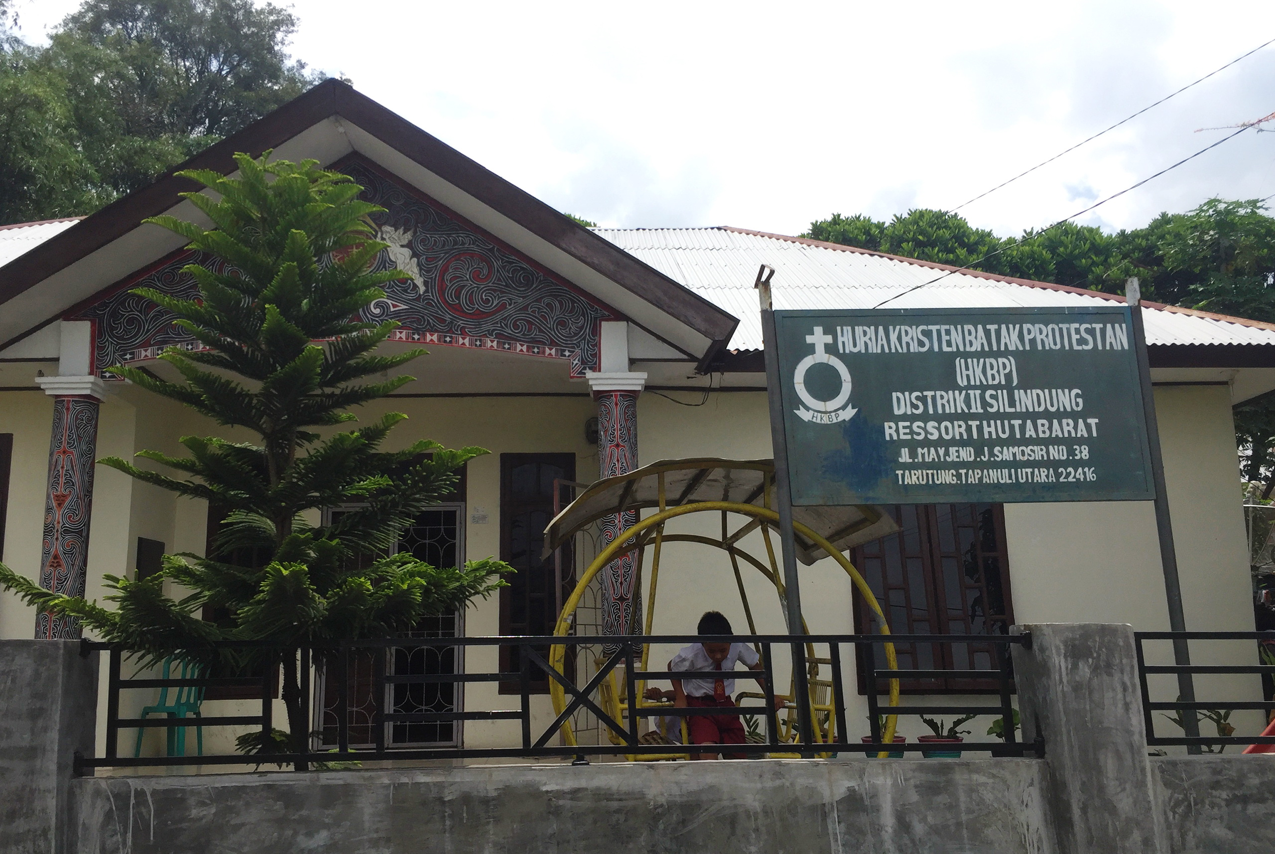 Office of HKBP Ressort Hutabarat in Tarutung, North Tapanuli